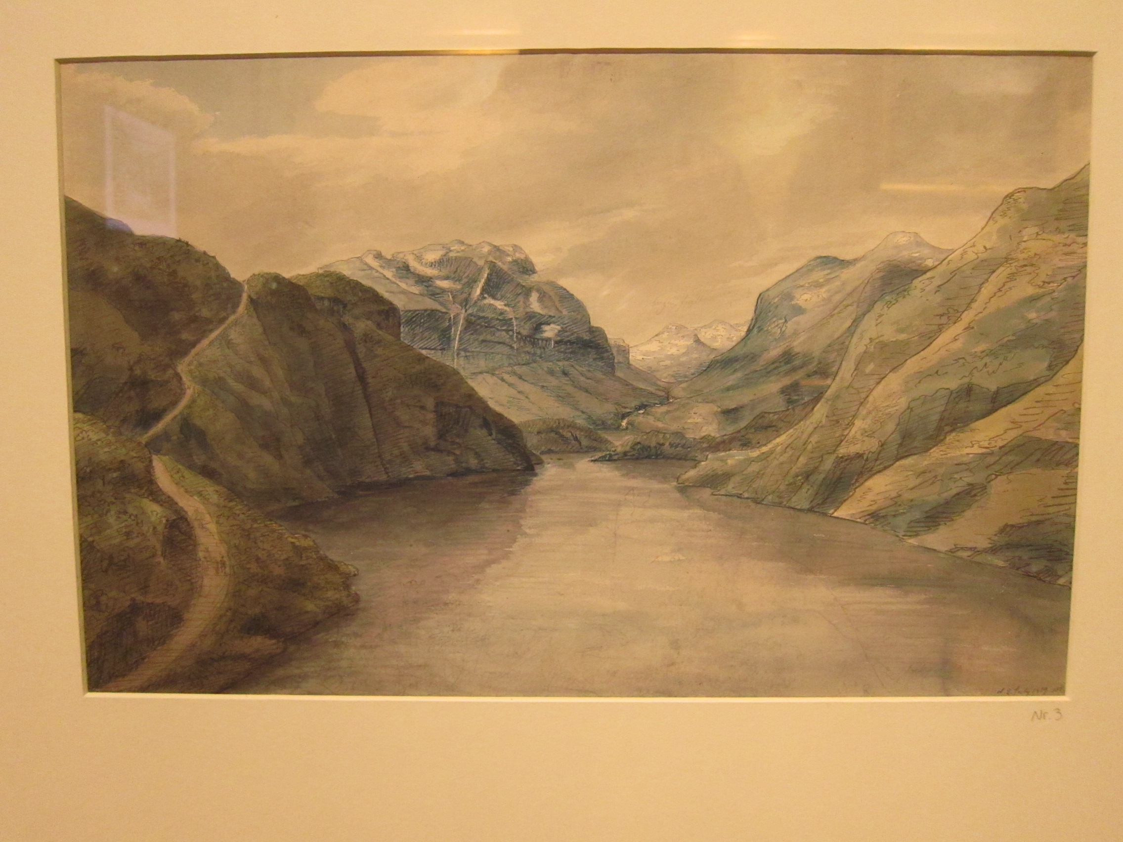 Title "Draft for Quamskleven", Vang in Valdres, Norway. Watercolor painting/aquarelle.